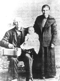 photo of William Helms, the Iron Mountain baby, with parents